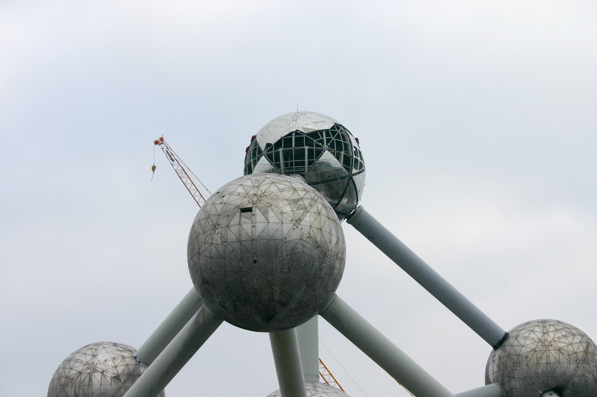 Brussels Atomium under construction